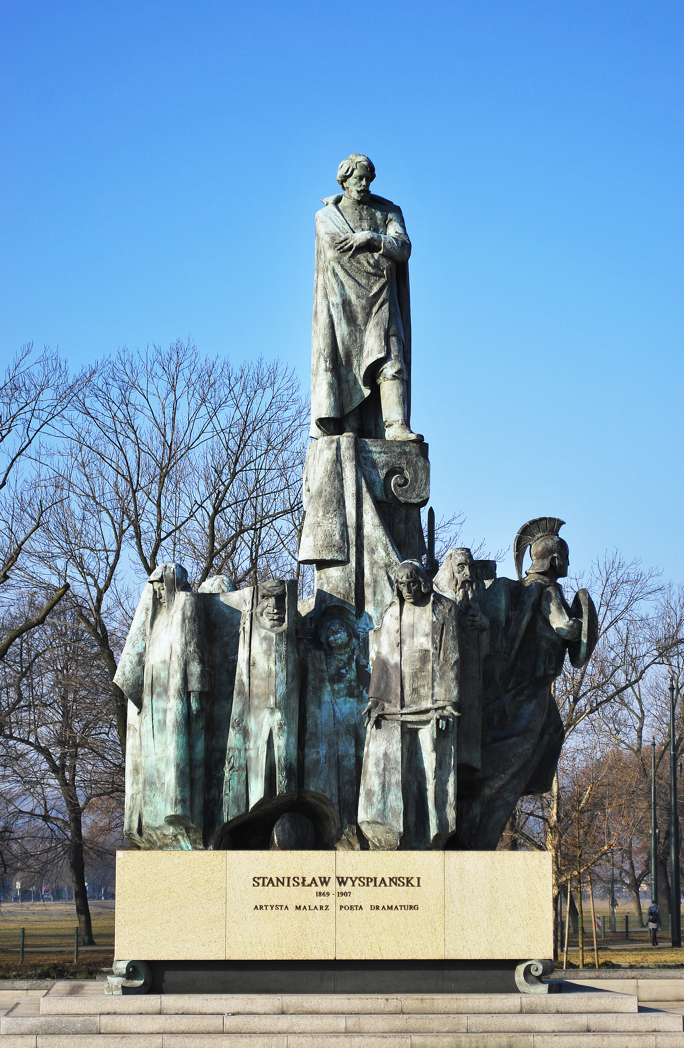 Stanisław Wyspiański monument (1982 by Marian Konieczny), May 3 Av, Kraków, Poland